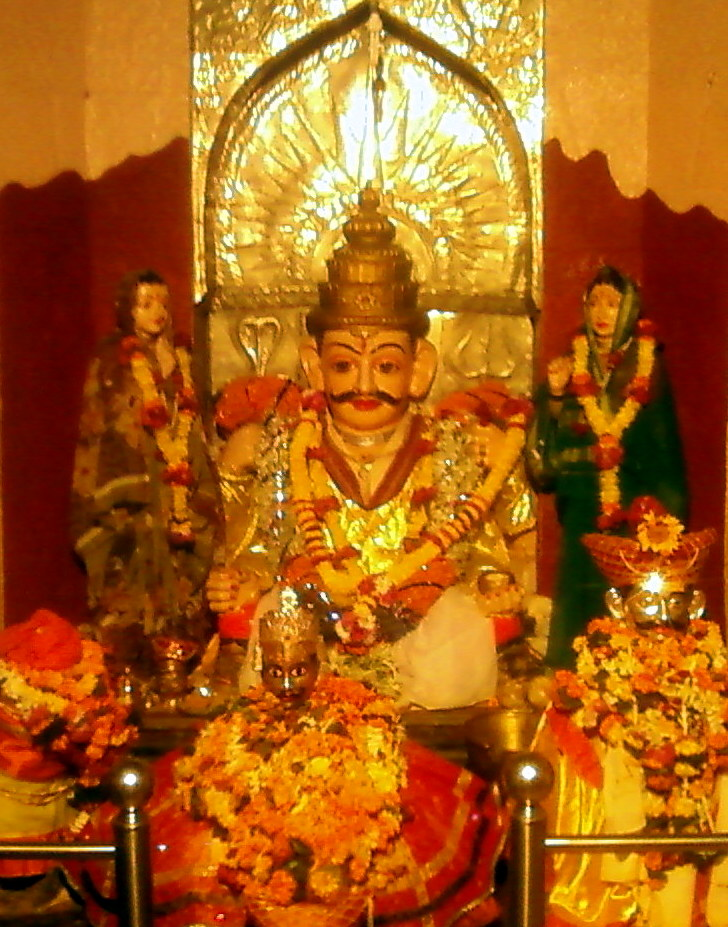 khandoba nalawane